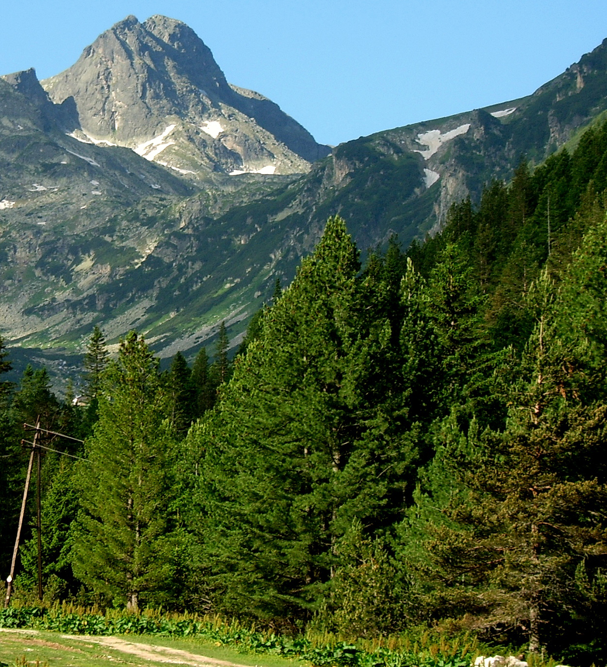 Pinus peuce in native environment, Maliovitsa, Rila Mts., Bulgaria. Photo 42°12'31"N 23°23'17"E, 1720 m altitude.